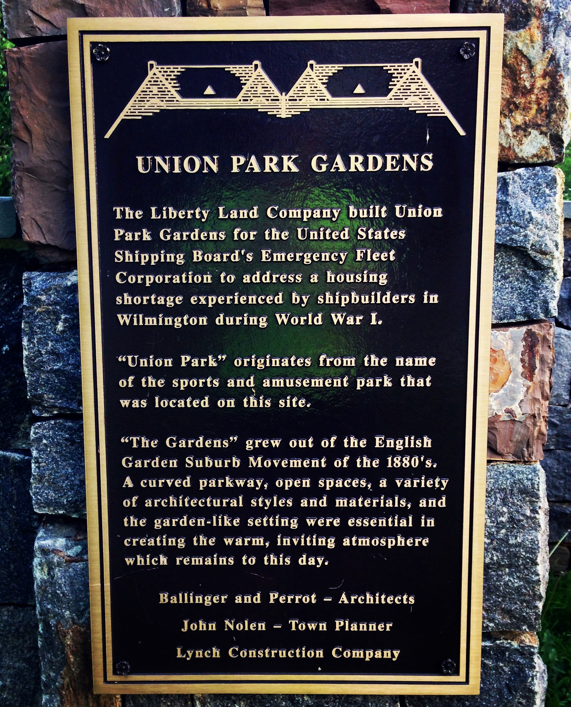 Information sign located outside of Union Park Gardens.